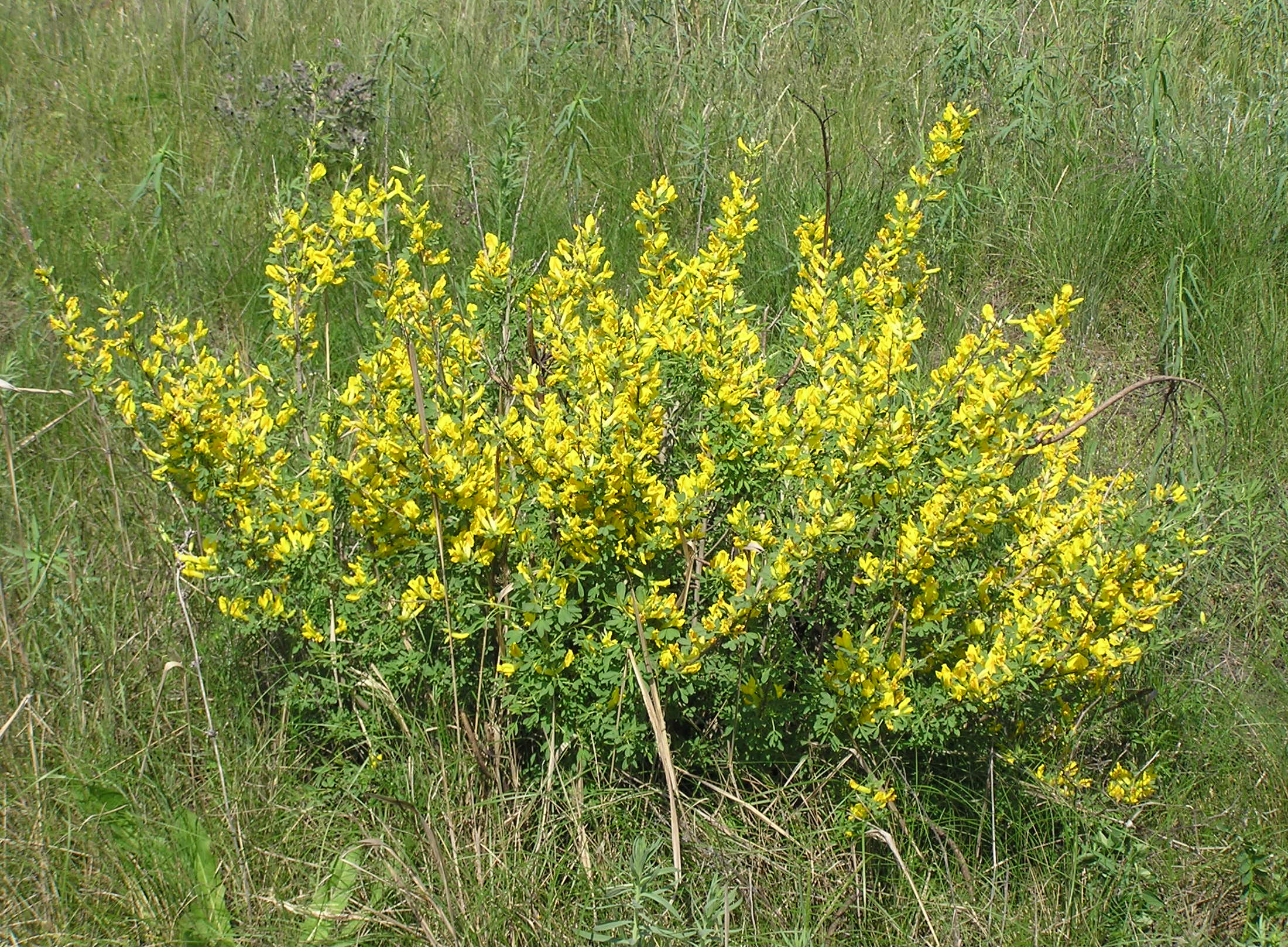 Chamaecytisus ruthenicus (Fisch. ex Vorosch.) Klask in bloom. Habitat: steppe. Vicinity of Saratov city, Russia.